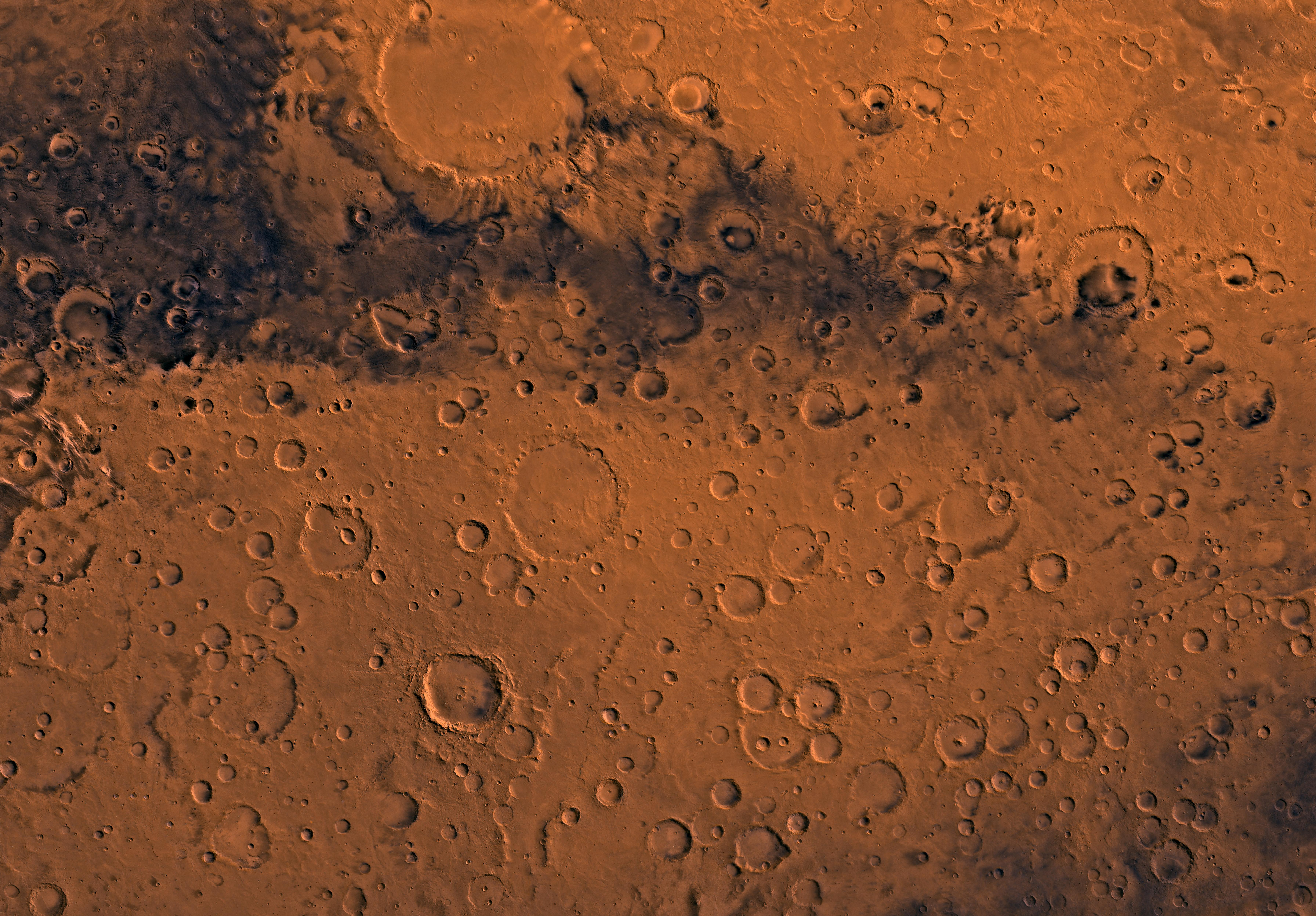 PIA00180: MC-20 Sinus Sabeus Region Mars digital-image mosaic merged with color of the MC-20 quadrangle, Sinus Sabeus region of Mars. Heavily cratered highlands dominate the Sinus Sabeus quadrangle. The northern part is marked by a large impact crater, Schiaparelli. Schiaparelli is an ancient remnant of the many large impact events that occurred during the period of heavy bombardment. Latitude range -30 to 0 degrees, longitude range -45 to 0.